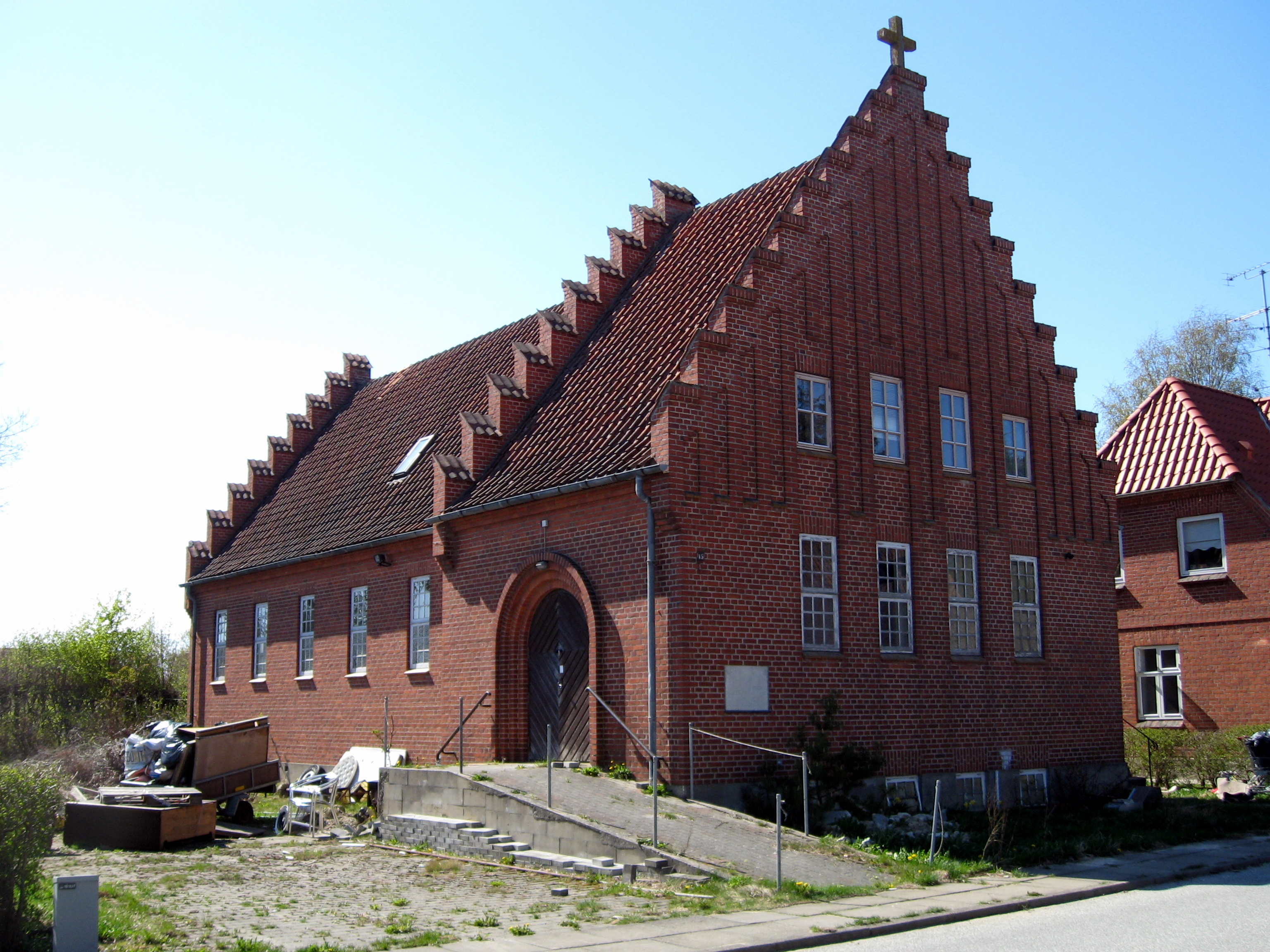 An old baptist church in the Danish town of Dybvad